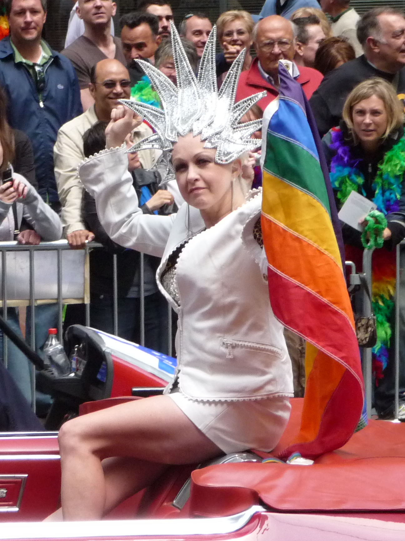 Cyndi Lauper at 38th Annual San Francisco LGBT Pride parade